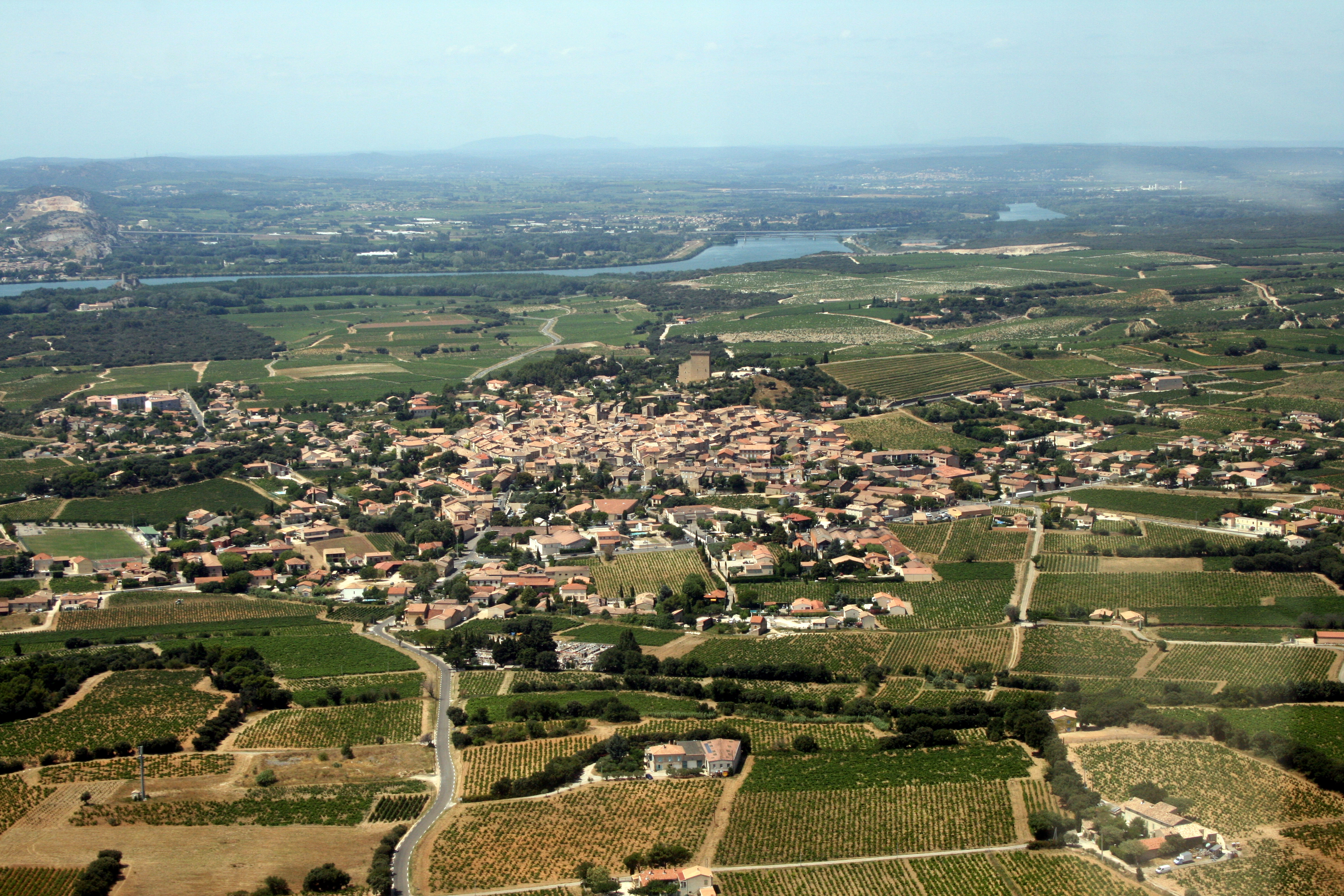 Aerial view Châteauneuf-du-Pape